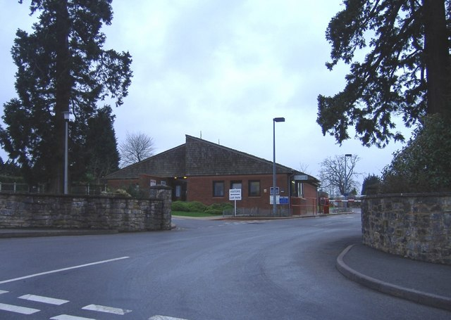 Leyhill prison A low-security 'open' institution.